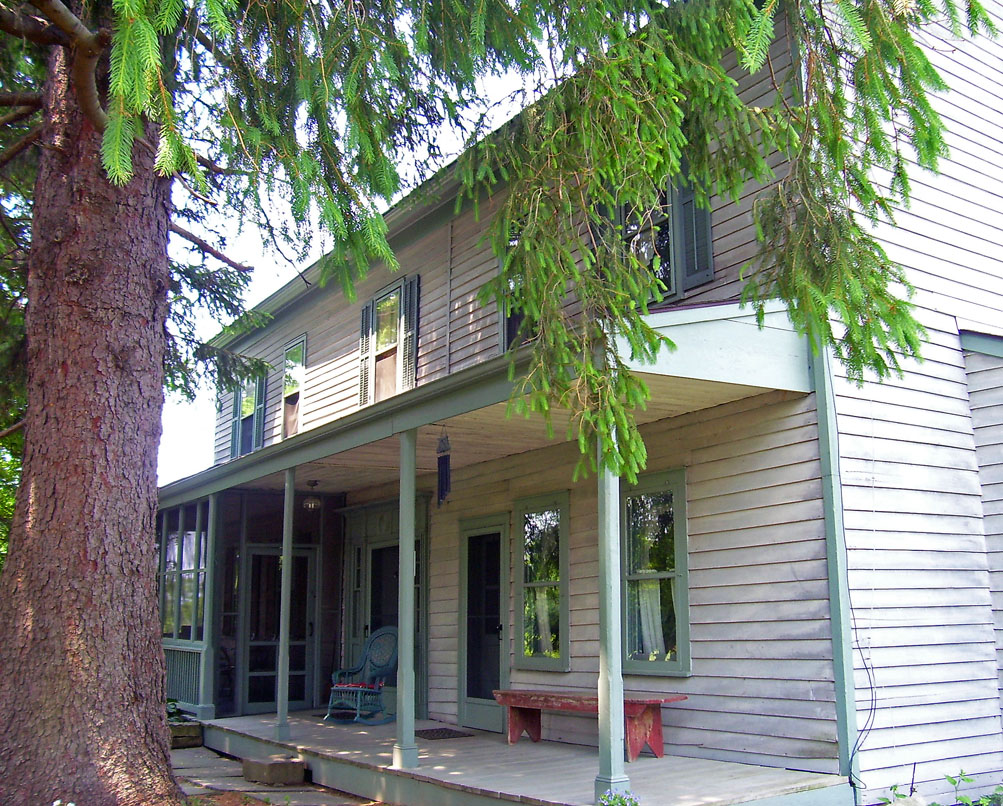 Photographed by Daniel Case 2007-06-02.